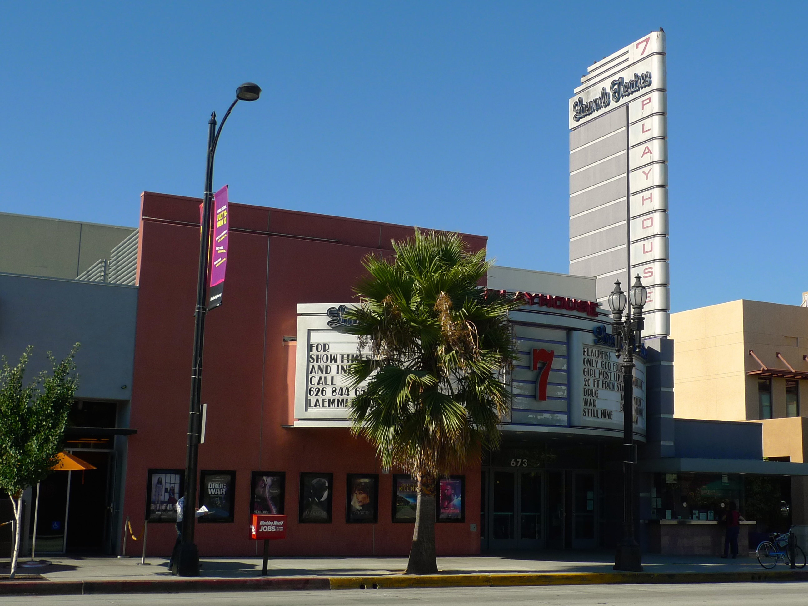 Laemmle Theatres Playhouse 7 in Pasadena, California, a movie theater that shows many independent films.